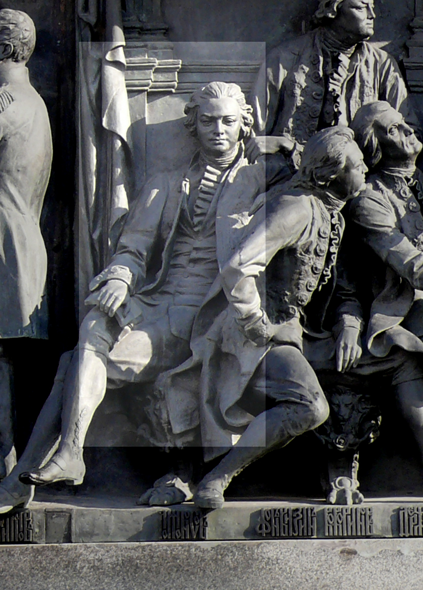 Mikhail Lomonosov on the Monument «Millennium of Russia» in Veliky Novgorod